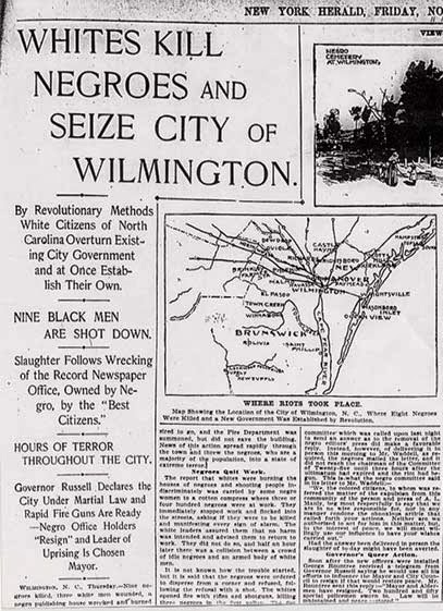 Whites Kill Negroes and Seize Wilmington